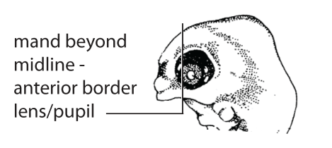 Standard Event System character depiction